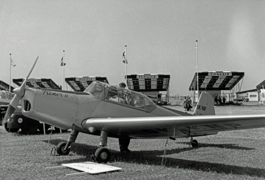 Zlin Z226T Trener 6 OK-KNP displayed at the 1957 Paris Air Salon at Le Bourget Airport